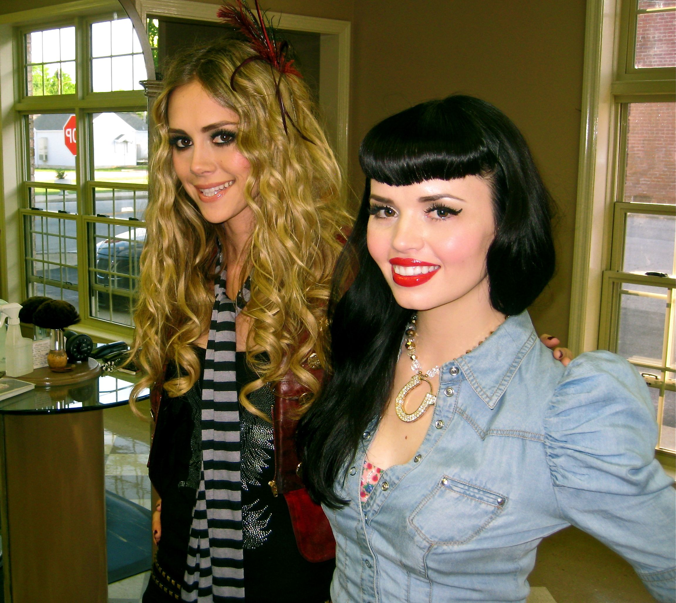 The JaneDear girls filming their latest video for Shotgun Girl.